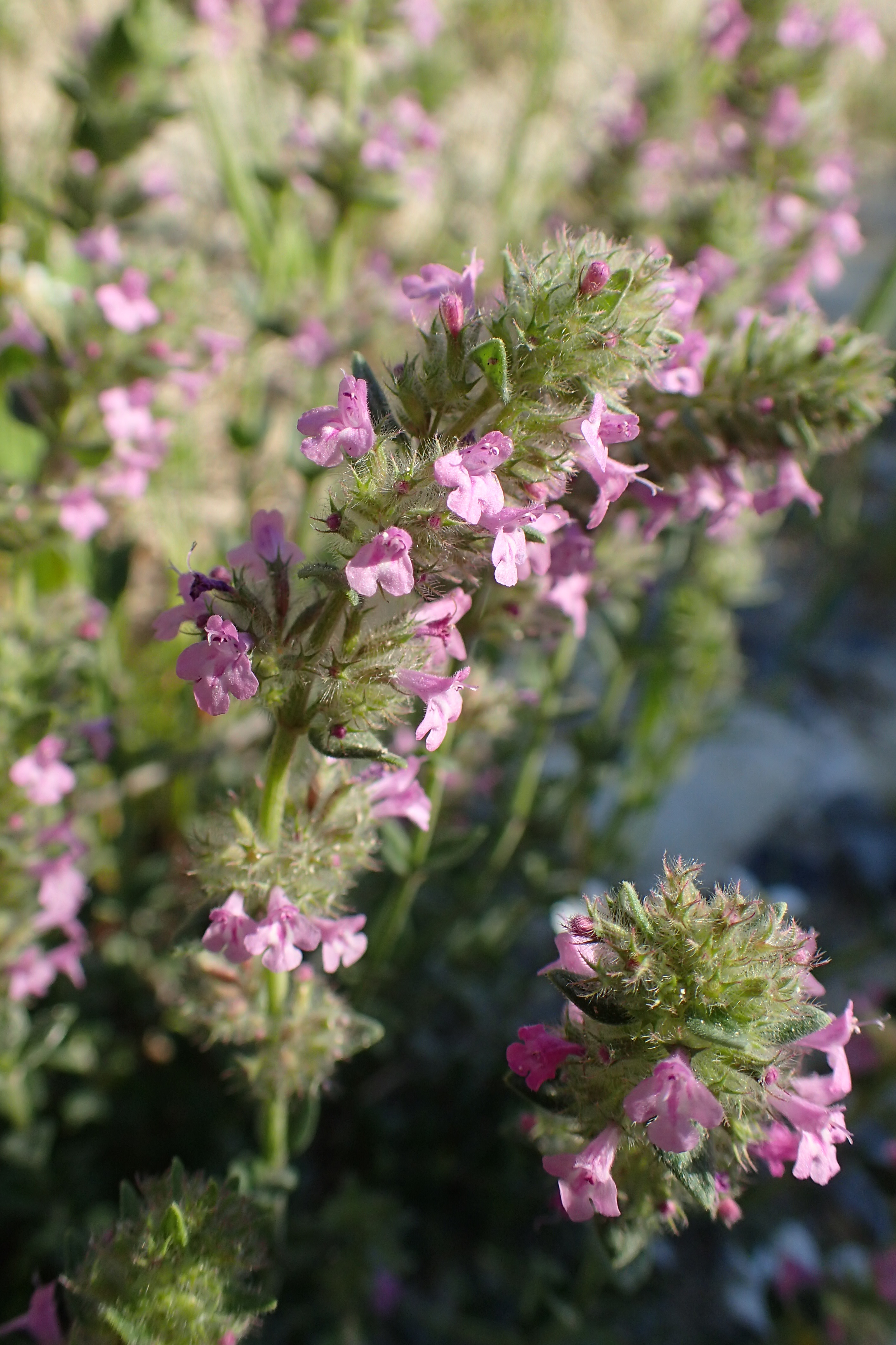 Micromeria nervosa in Avdimou, Cyprus